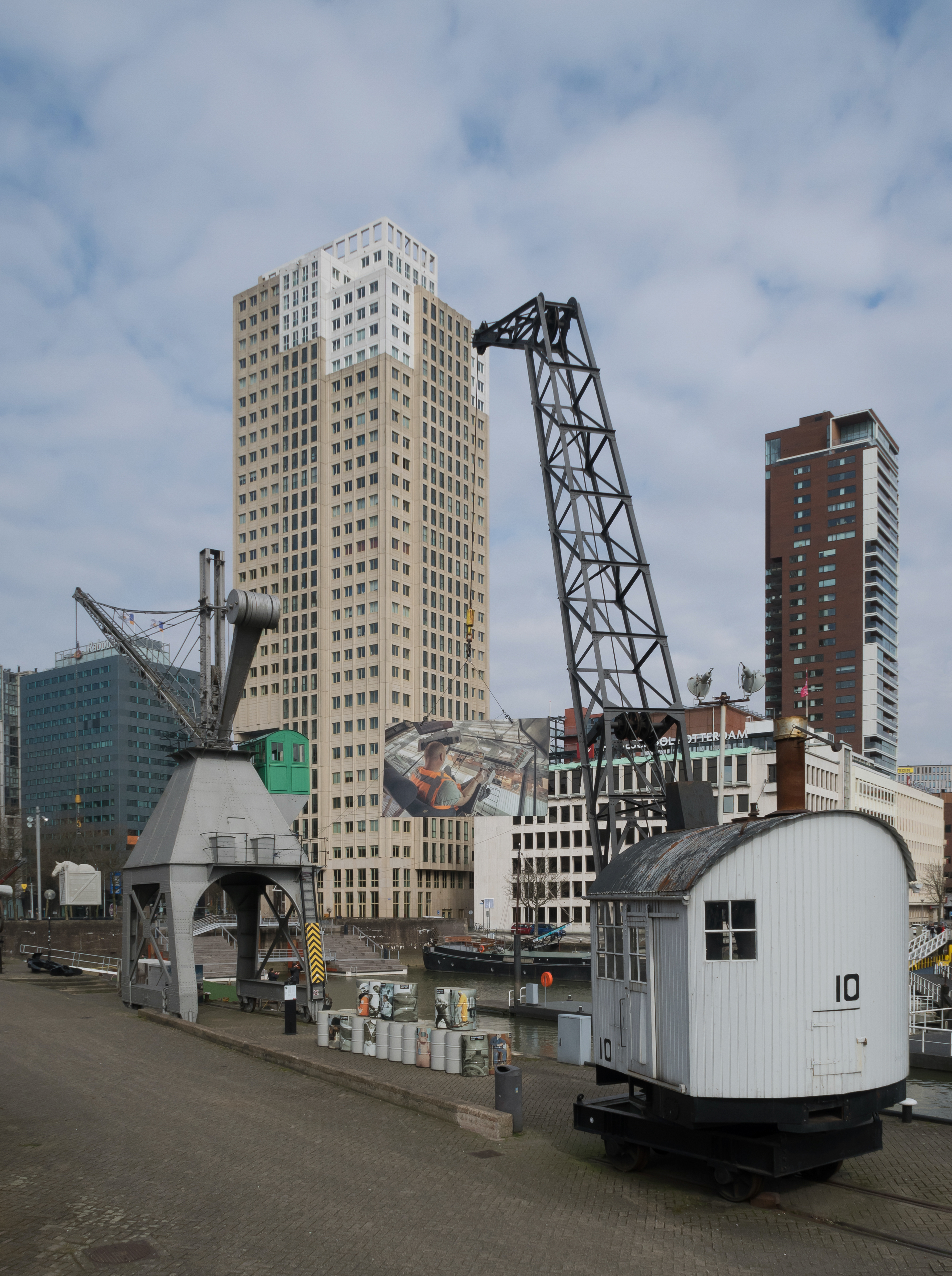 Rotterdam, monumental port cranes at the museum